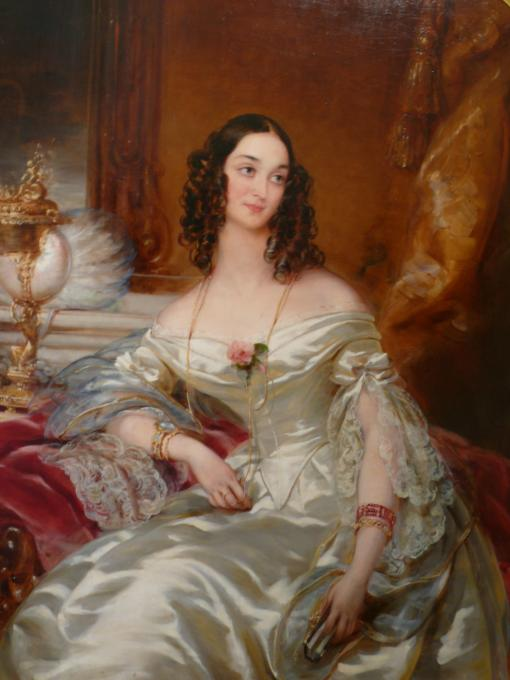 Countess Anna Sheremeteva